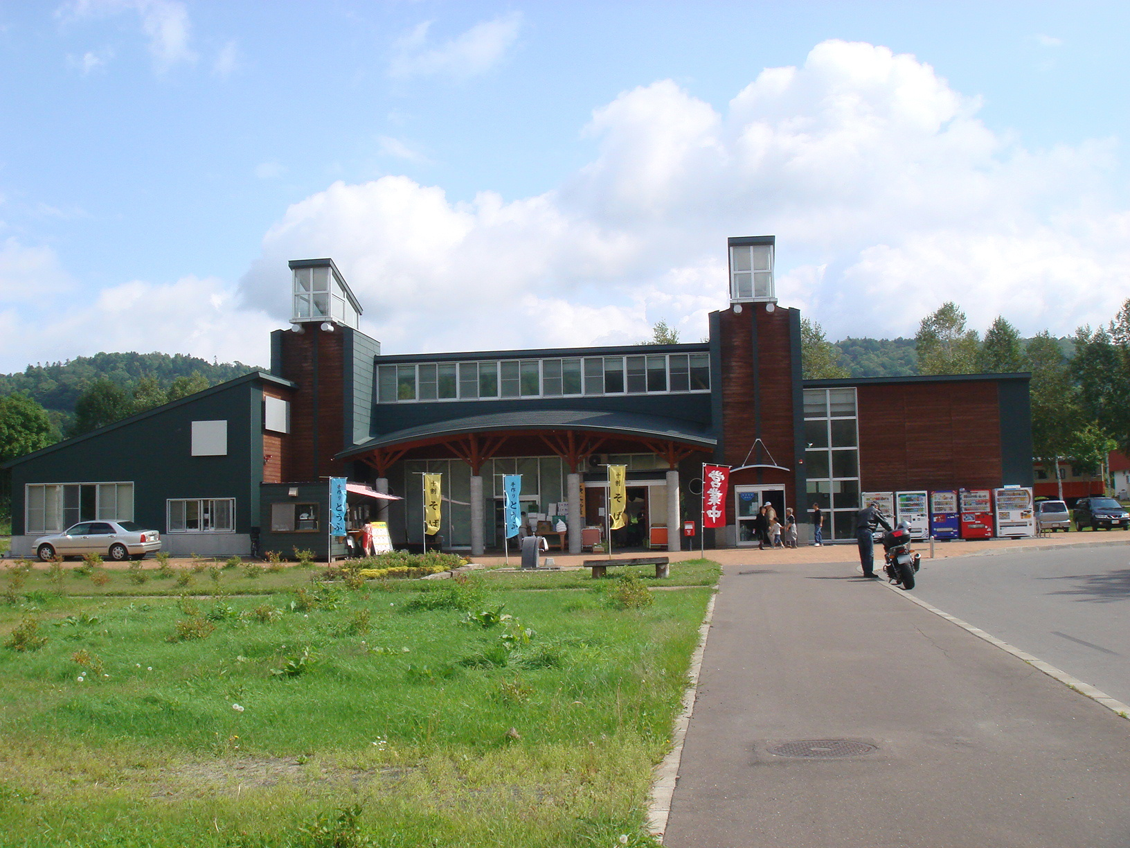 Michinoeki (Roadside Station) Aioi in Tsubetsu Town, Hokkaido, Japan